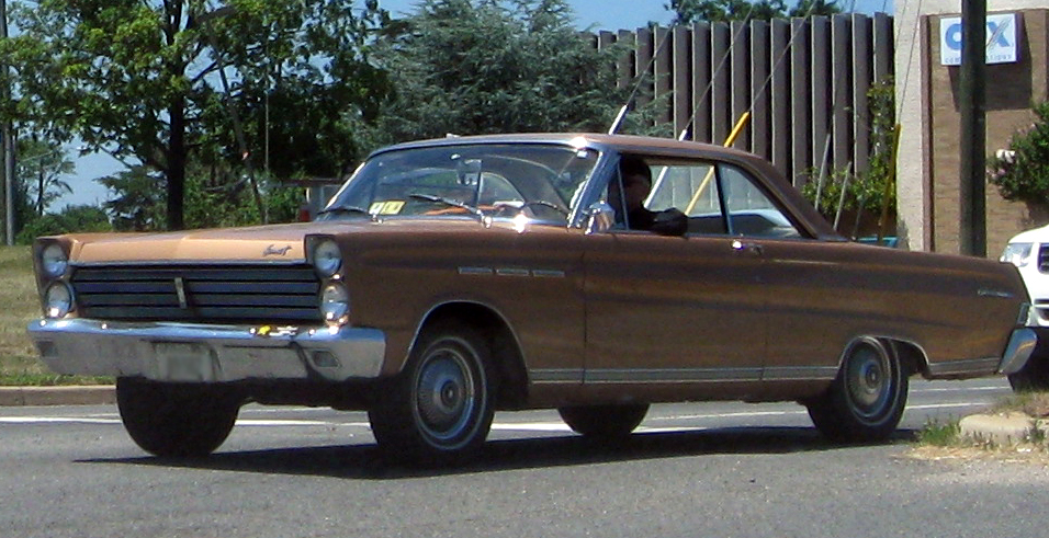 1965 Mercury Comet Caliente Two-Door Hardtop photographed in Chantilly, Virginia, USA.